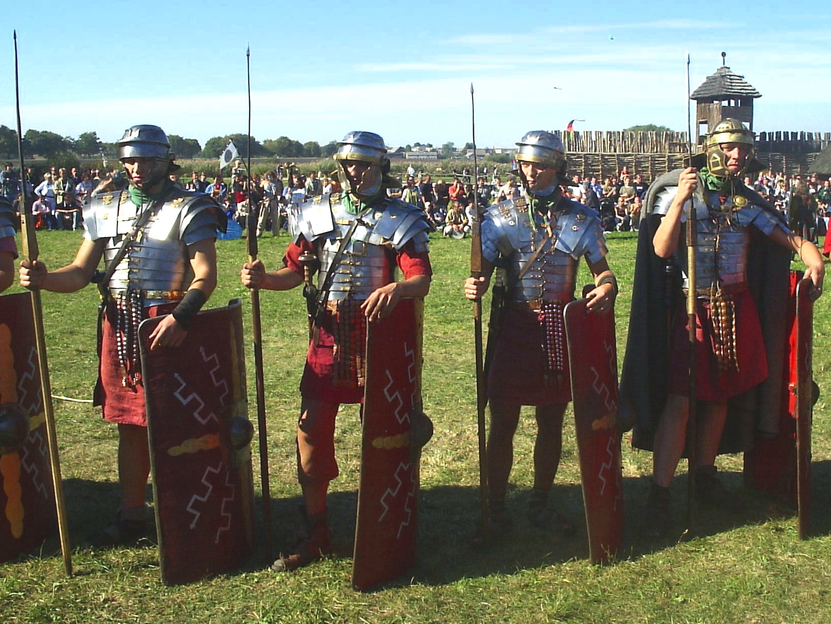 Roman soldiers - Legio XIIII GMV, Biskupin, Poland